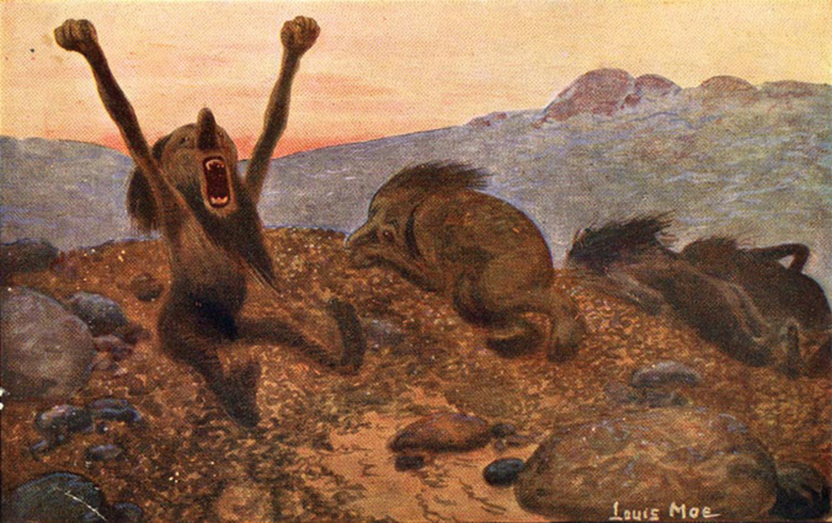 Danish trolls living in the hills as described in legends and folk tales. Postcard, 1918.